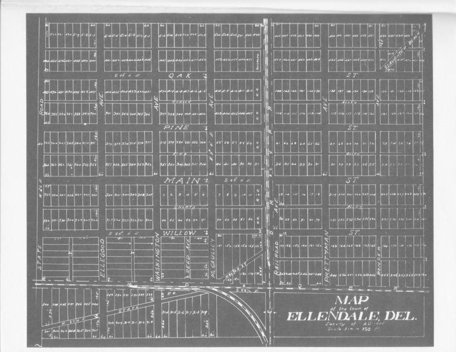 Map of the town of Ellendale, Delaware as planners laid it out in 1906.